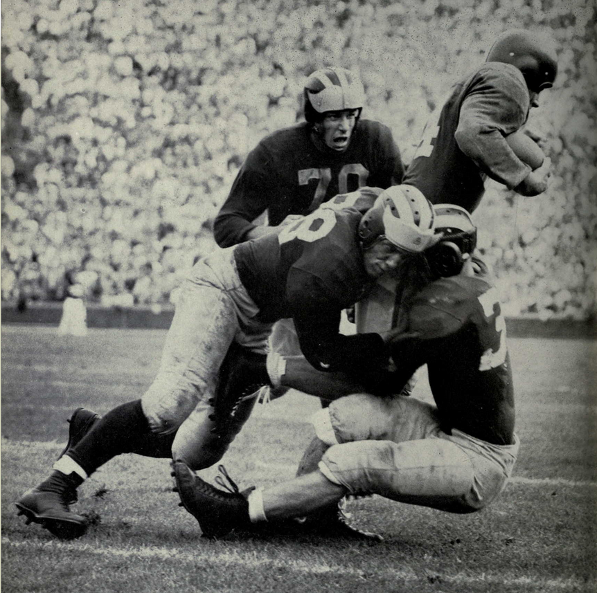 Photograph of Roger Zatkoff (No. 70) at top of photo, Harry Allis (No. 88), and a third Wolverine player tackling an opposing player This work is in the public domain because it was published in the United States between 1923 and 1963 and although there may or may not have been a copyright notice, the copyright was not renewed. Unless its author has been dead for the required period, it is copyrighted in the countries or areas that do not apply the rule of the shorter term for US works, such as Canada (50 pma), Mainland China (50 pma, not Hong Kong or Macao), Germany (70 pma), Mexico (100 pma), Switzerland (70 pma), and other countries with individual treaties. See Commons:Hirtle chart for further explanation. This work is in the public domain in the United States because it was published in the United States between 1923 and 1977 without a copyright notice. See Commons:Hirtle chart for further explanation. Note that it may still be copyrighted in jurisdictions that do not apply the rule of the shorter term for US works (depending on the date of the author's death), such as Canada (50 p.m.a.), Mainland China (50 p.m.a., not Hong Kong or Macao), Germany (70 p.m.a.), Mexico (100 p.m.a.), Switzerland (70 p.m.a.), and other countries with individual treaties.